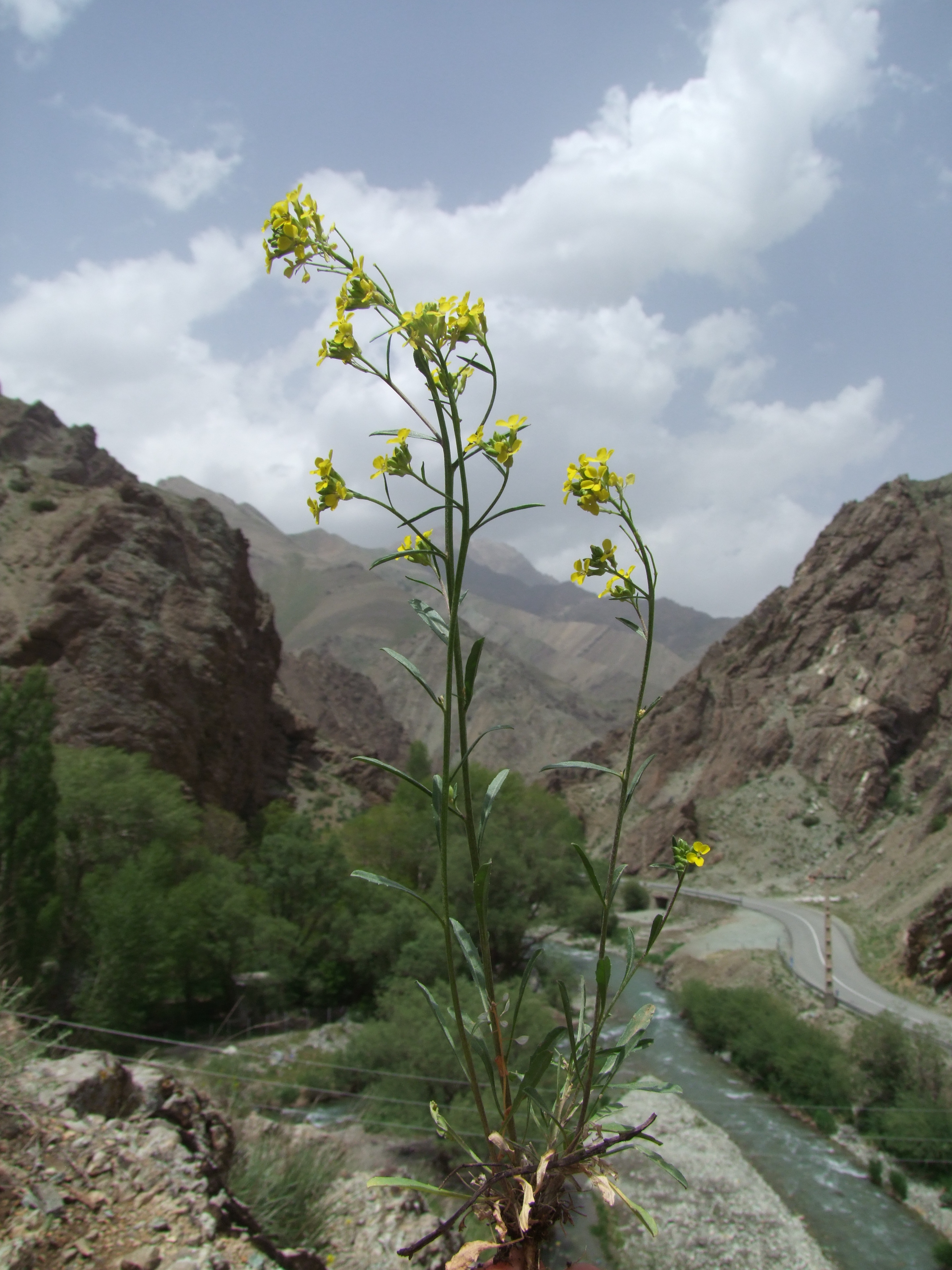 Erysimum collinum growing in Iran.